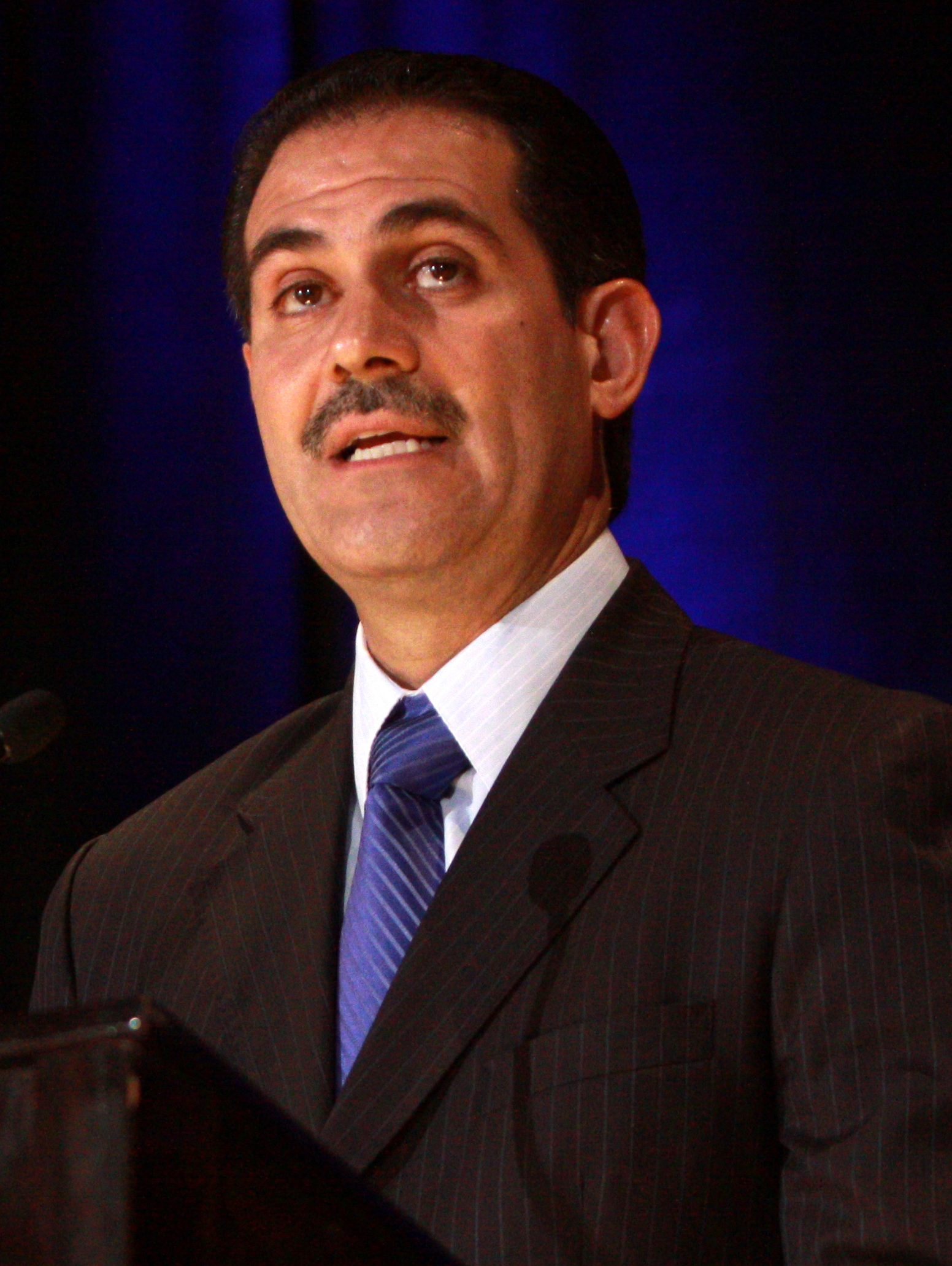 Guillermo Padrés Elías speaking at an event in Phoenix, Arizona.